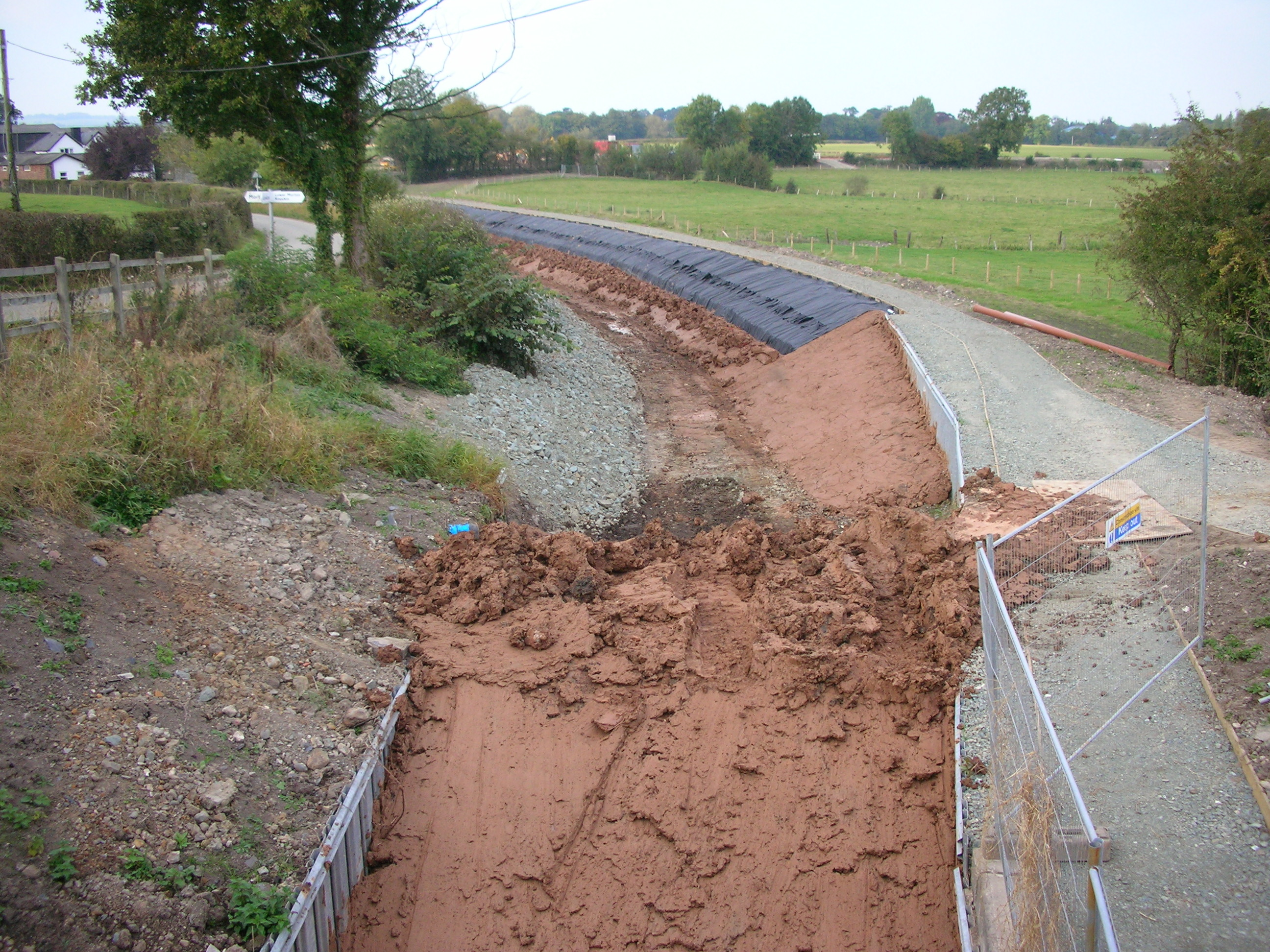 Restoration underway of a derelict part of the Montgomery Canal at Redwith Bridge, near Llynclys, Shropshire, England. Puddle clay has been applied to the side of the canal. A huge plug of puddle temporarily blocks the end of the section of canal. Photographed by me 6 October 2007. Oosoom